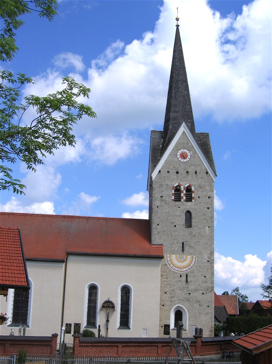 Ascholding, view of St Leonard Parish Church from south.